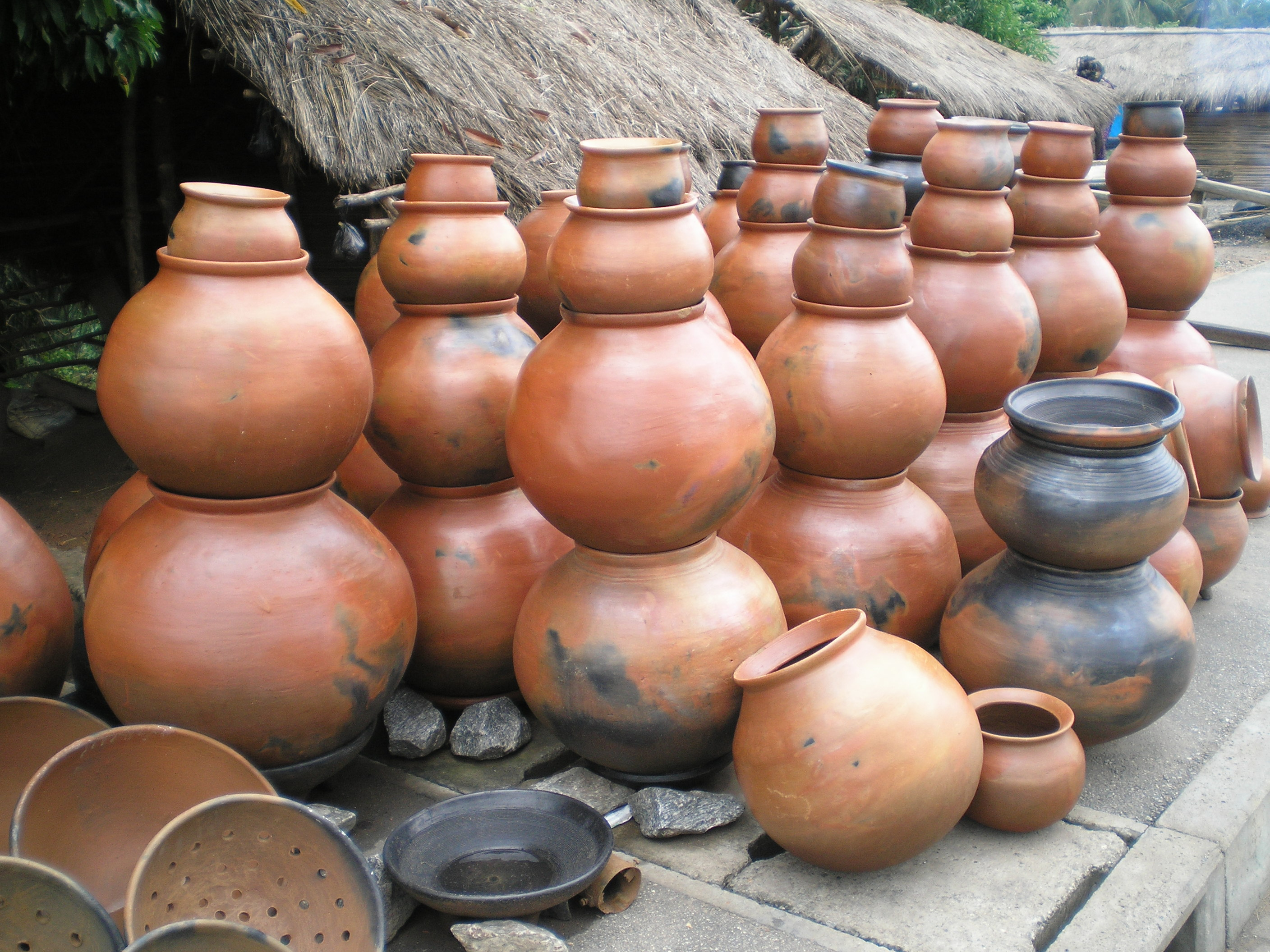 Locally made pottery sold on the road side in Ghana